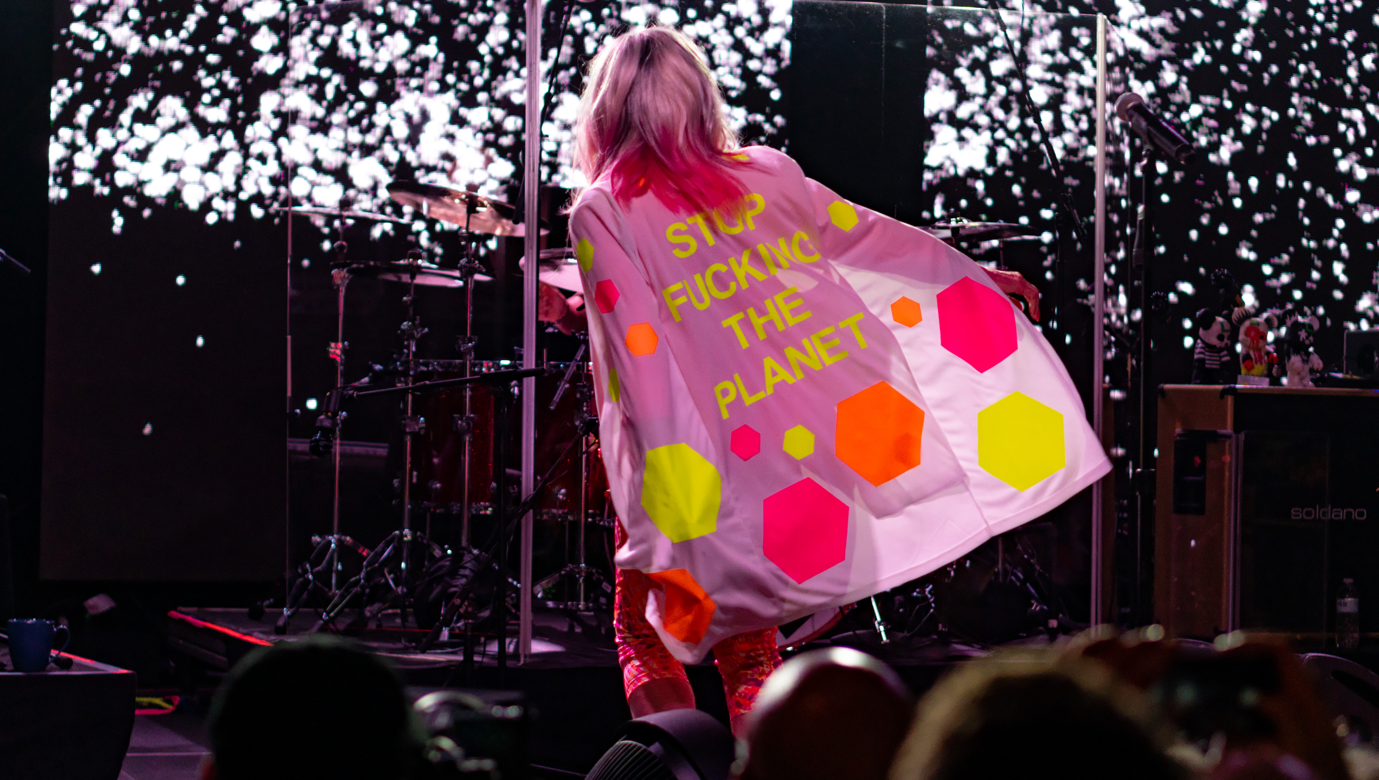 Debbie Harry wearing an environmentalist coat